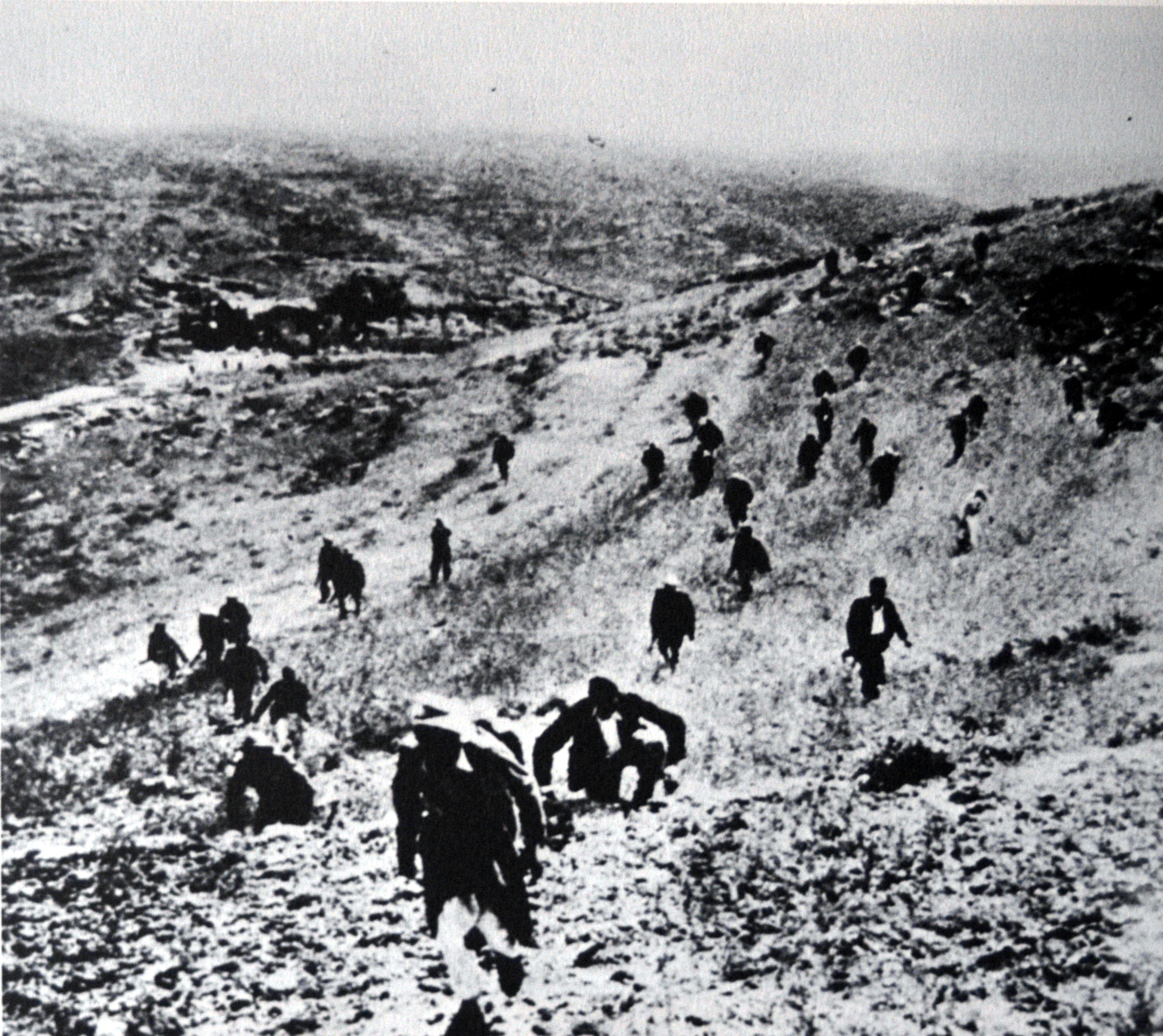 On the night of April 7-8, under the command of Abd al-Qadir al-Husseini, Palestinian irregulars counterattacked the Haganah occupiers of Castel. The Palestinians are seen here moving to the counterattack.